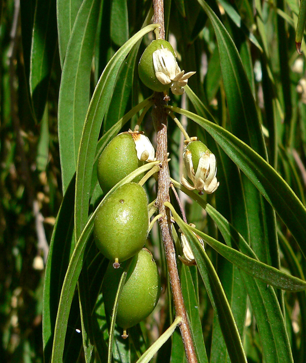 Pittosporum phillyreoides at the Ethel M Botanical Cactus Garden, Las Vegas, Nevada